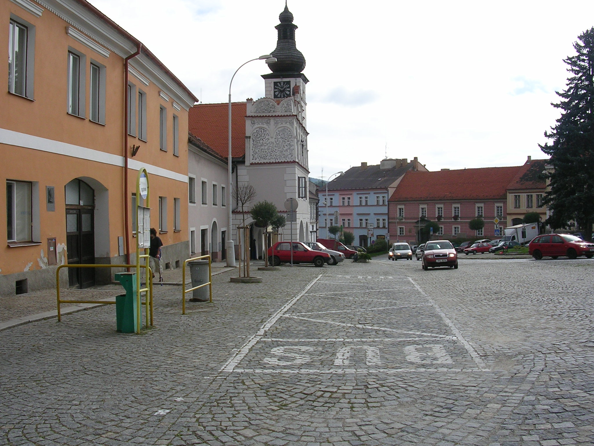 Volyně, South Bohemian Region, Czech Republic. Town hall.